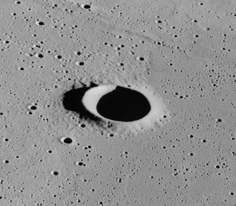 Oblique view of McDonald, Mare Imbrium, on the moon. Camera Altitude is 101 km, Sun Elevation is 8° (from right).